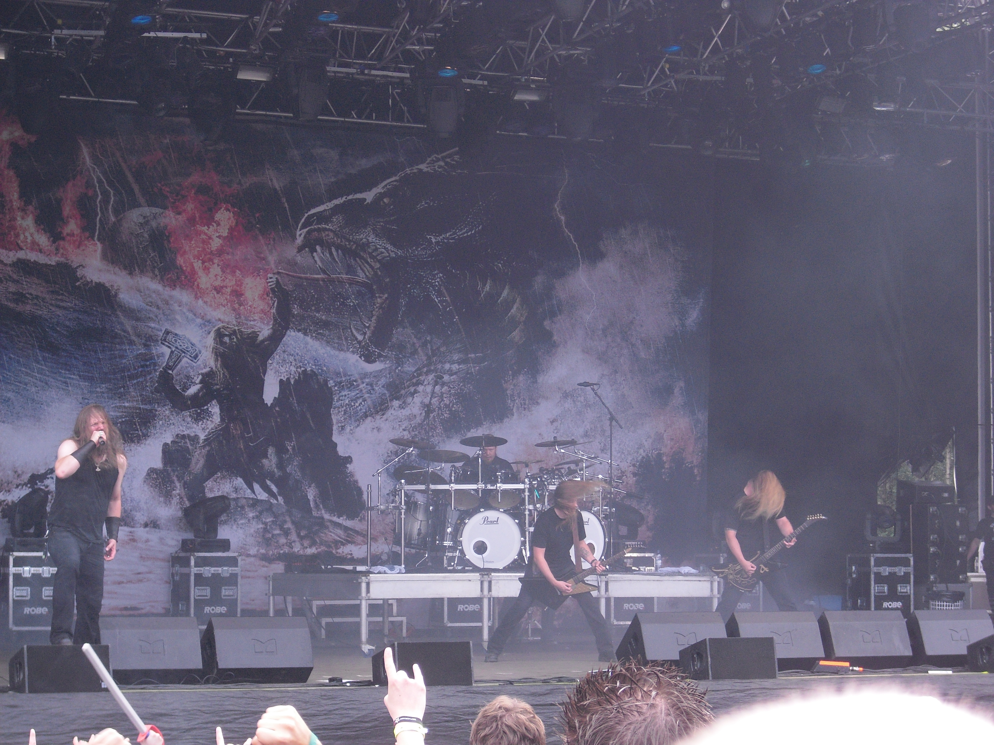 Amon Amarth performing live at Norway Rock Festival in July 2010